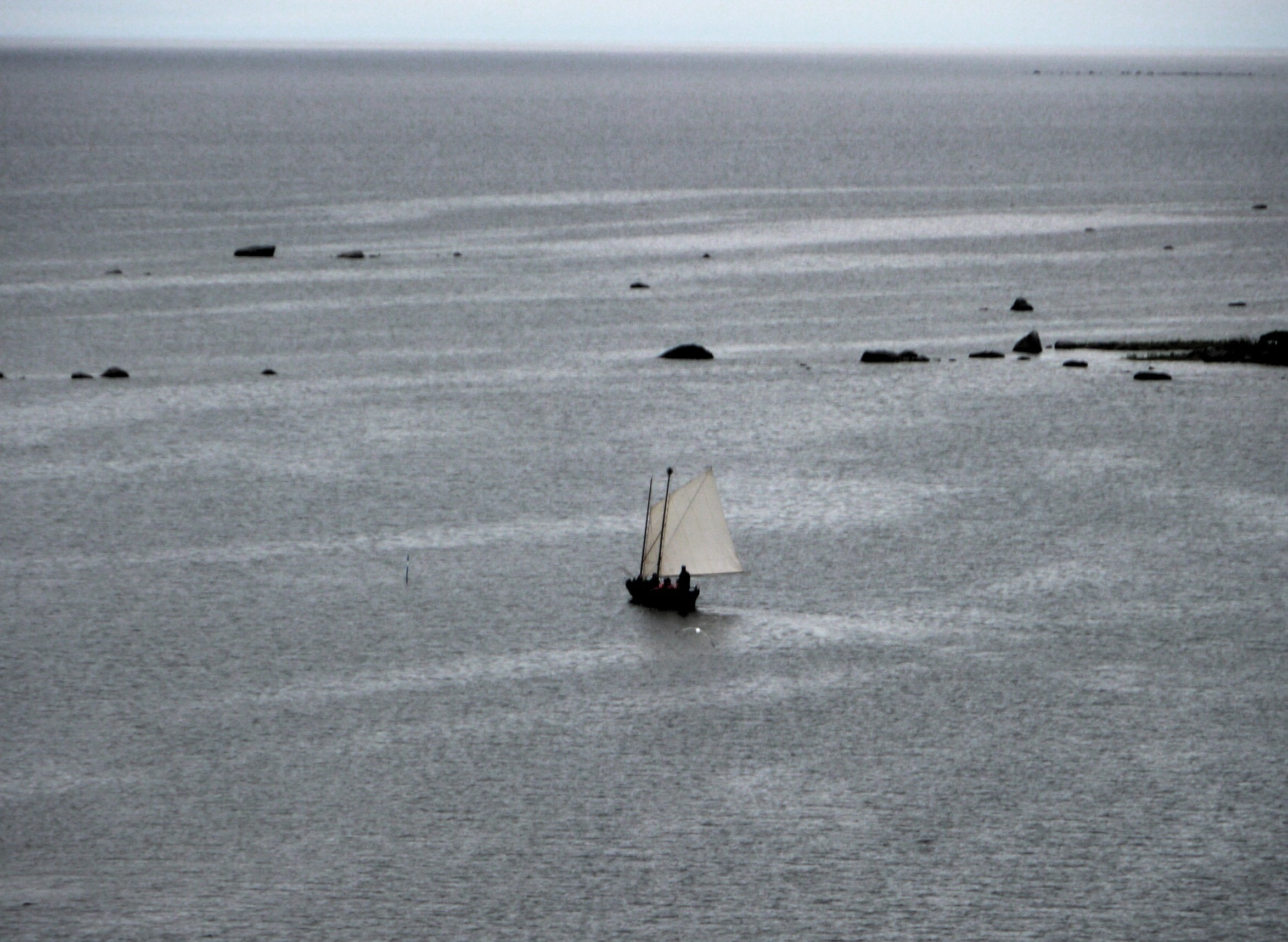 Traditional post vessel sailing from Svedjehamn, Finland, to Sweden over the Bothnian gulf